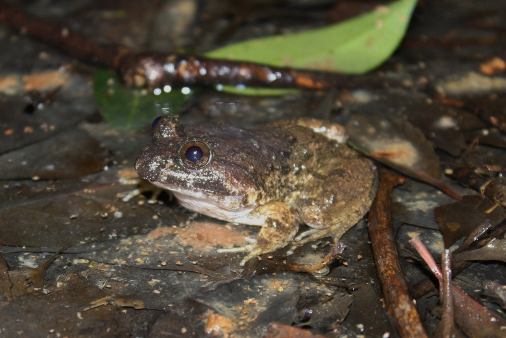 Taken in Lion Rock Country Park.